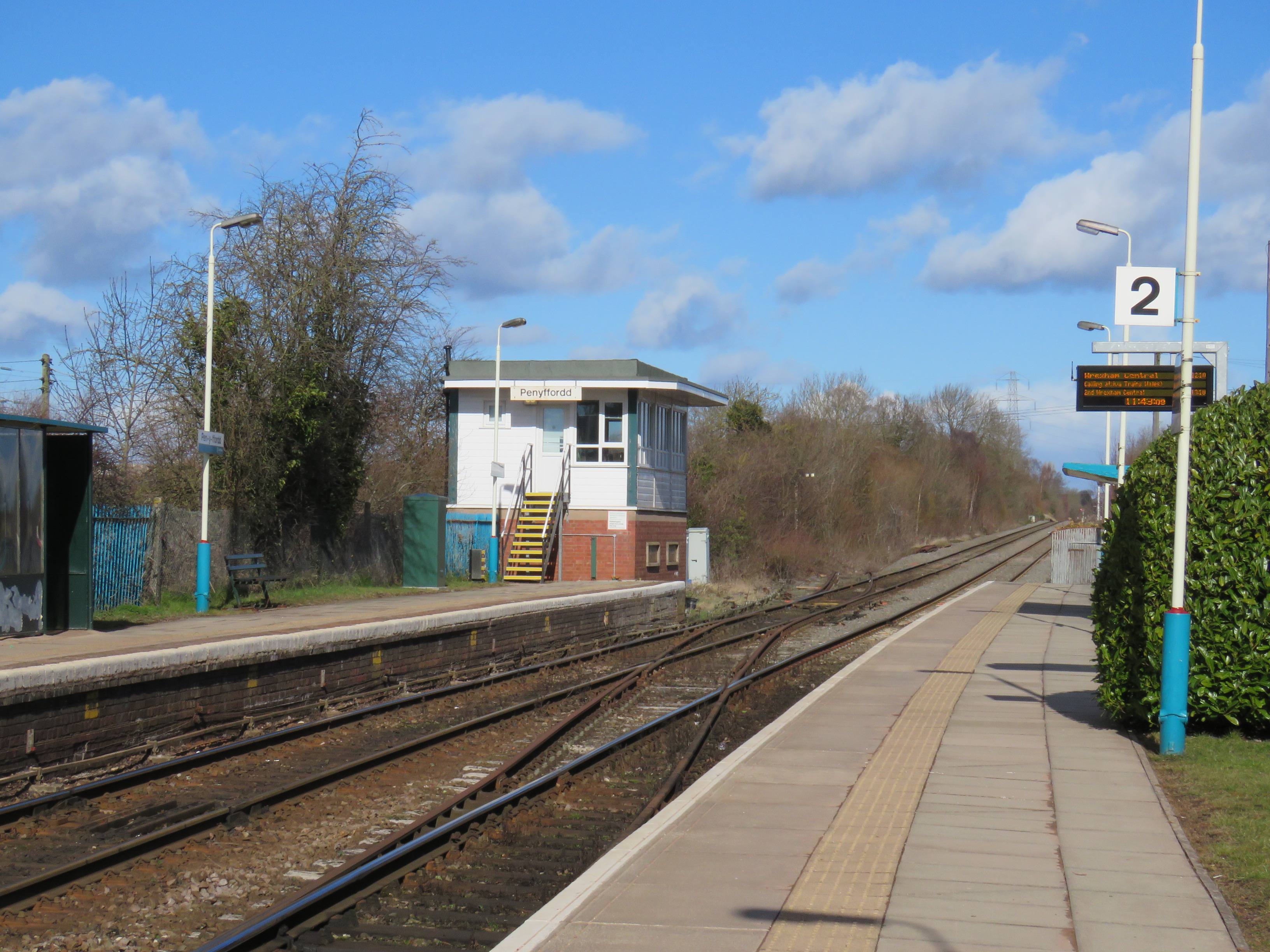 Pen-y-Ffordd station & signal box, North Wales